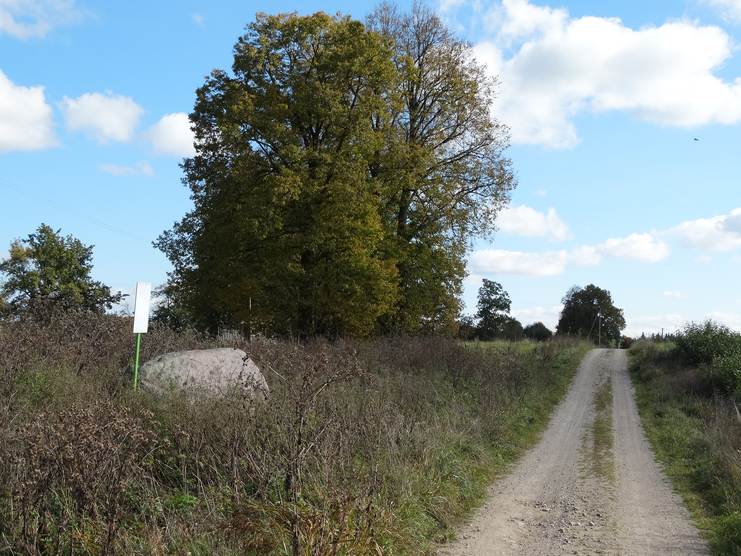 First stone, Klėriškės, Kaišiadorys district, Lithuania